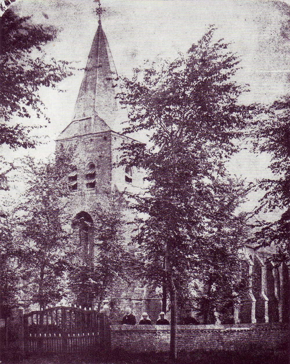 church Baarsdorp